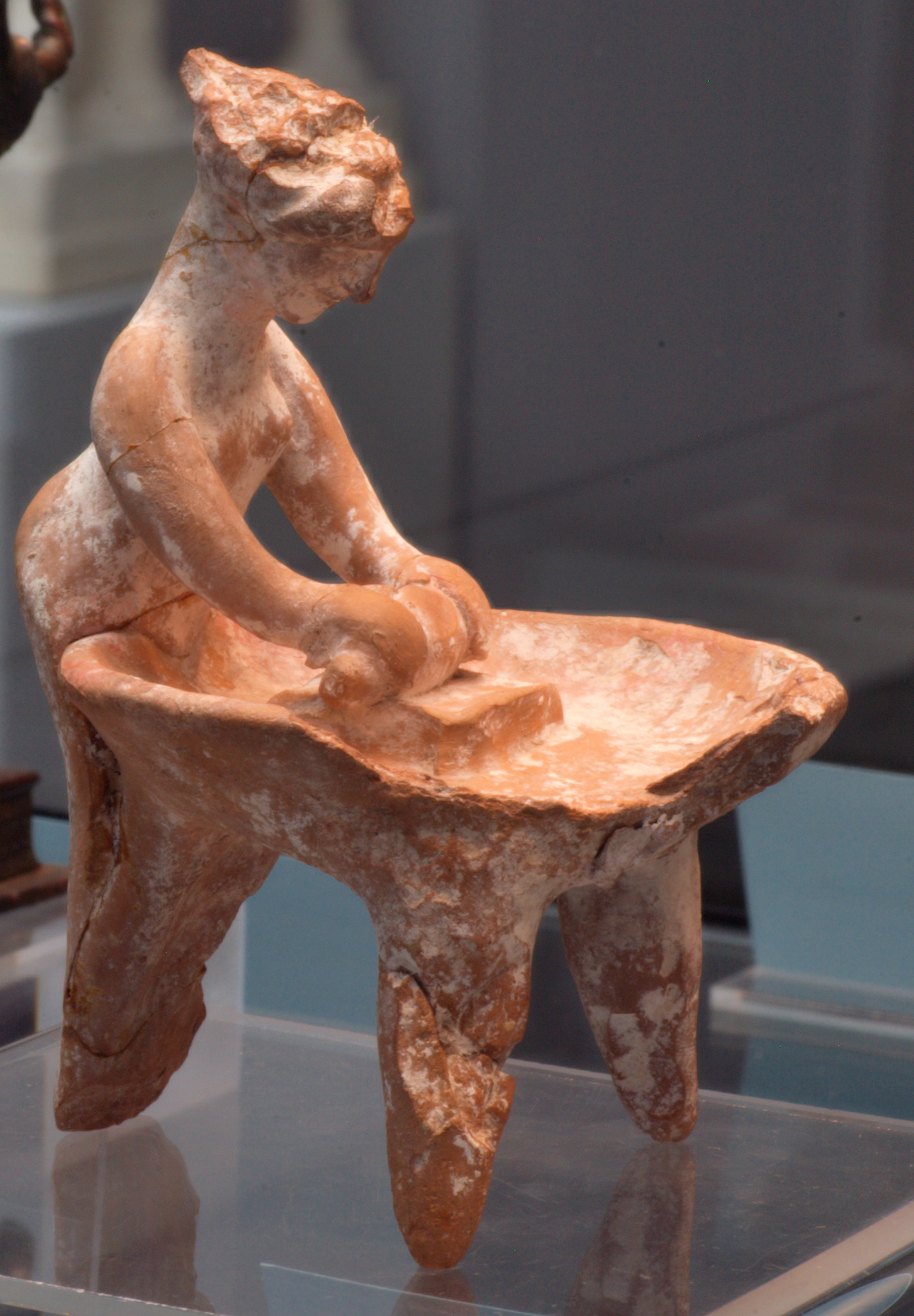 Terracotta statur woman kneading dough 5th century BC